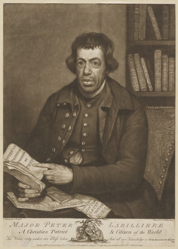 by Henry Kingsbury (after Joseph Wright mezzotint), published by John Strongitharm, published by John Stockdale, published 1 December 1780 (1780). Held by UK National Portrait Gallery. NPG D48097